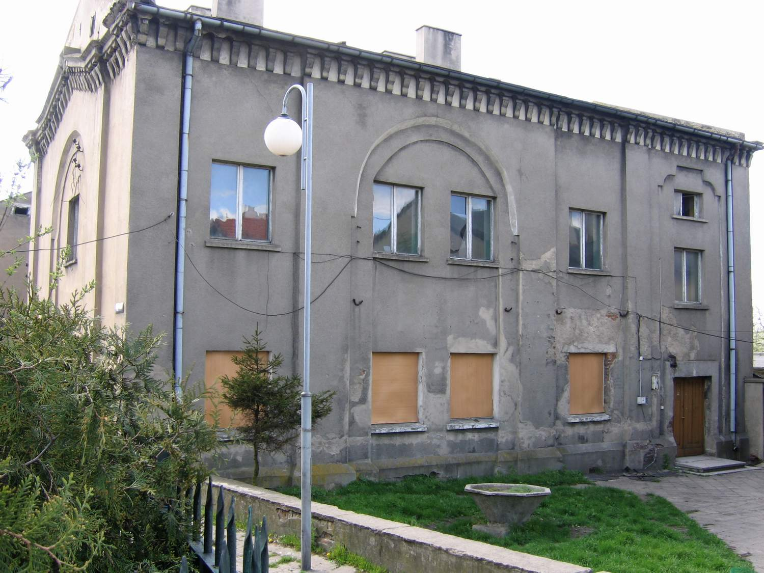 Synagogue in Słupca